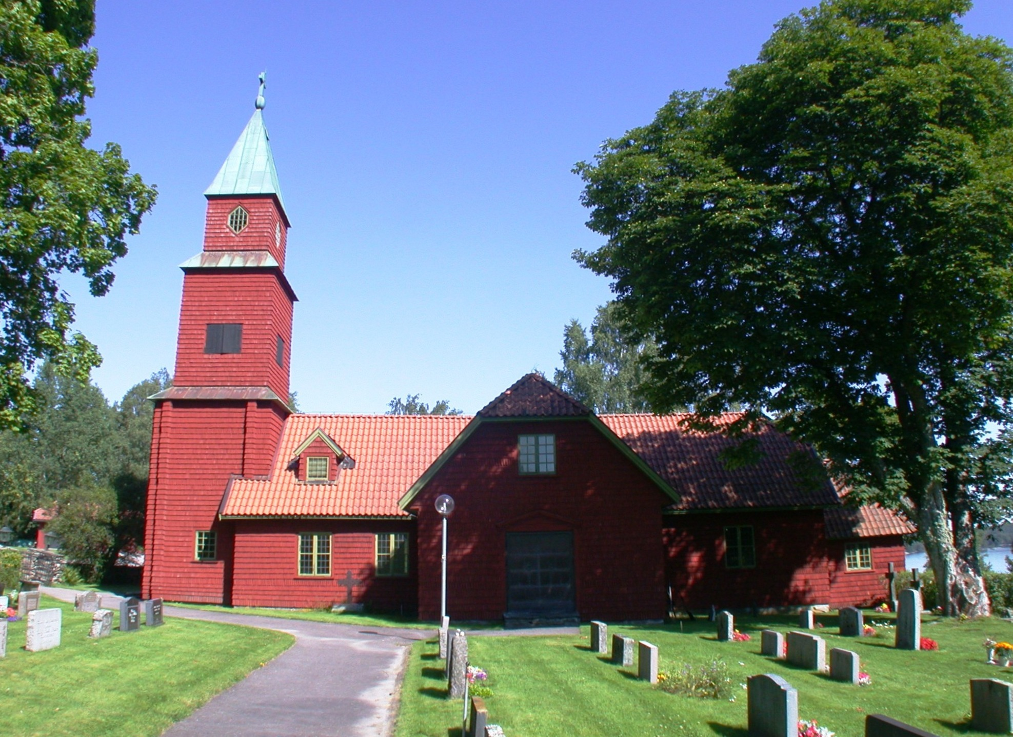 The church in Trankil, Sweden